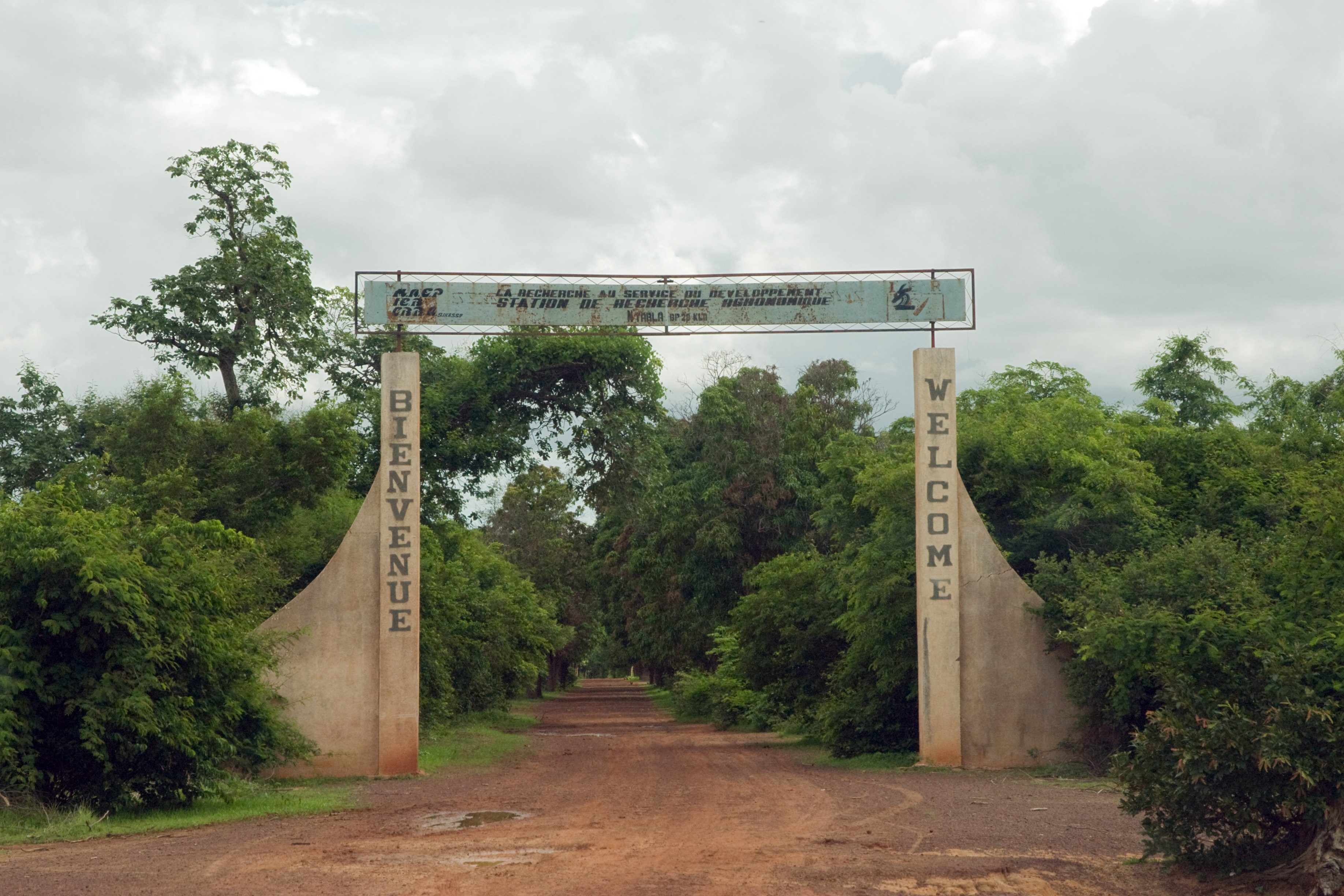 Gate to N'Tarla Agricultural Research Station, about 10 Km south of the town of M'Pessoba.